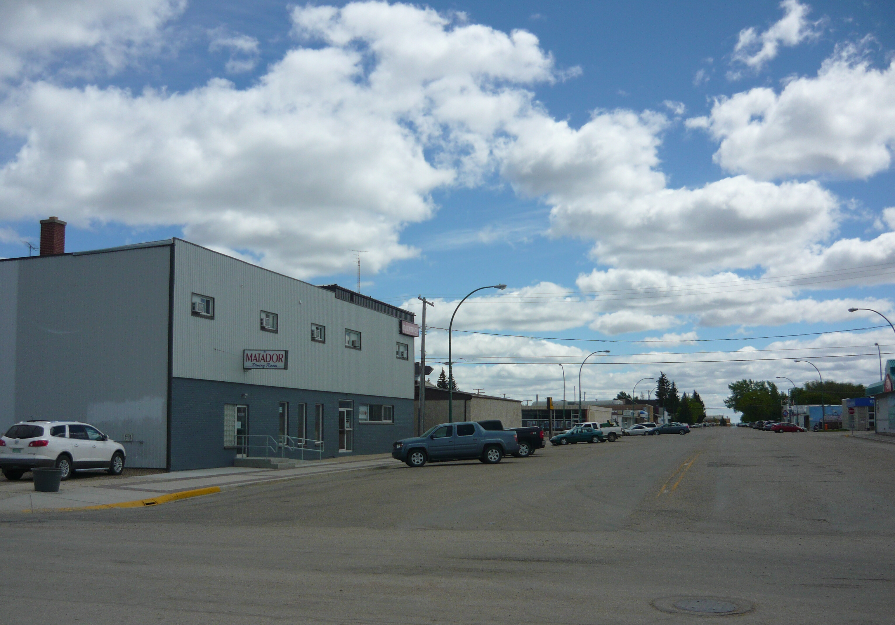 Franklin Street, looking south from Railway Avenue, in Outlook, Saskatchewan, Canada. The two-story building on the left is the Outlook Motor Hotel.